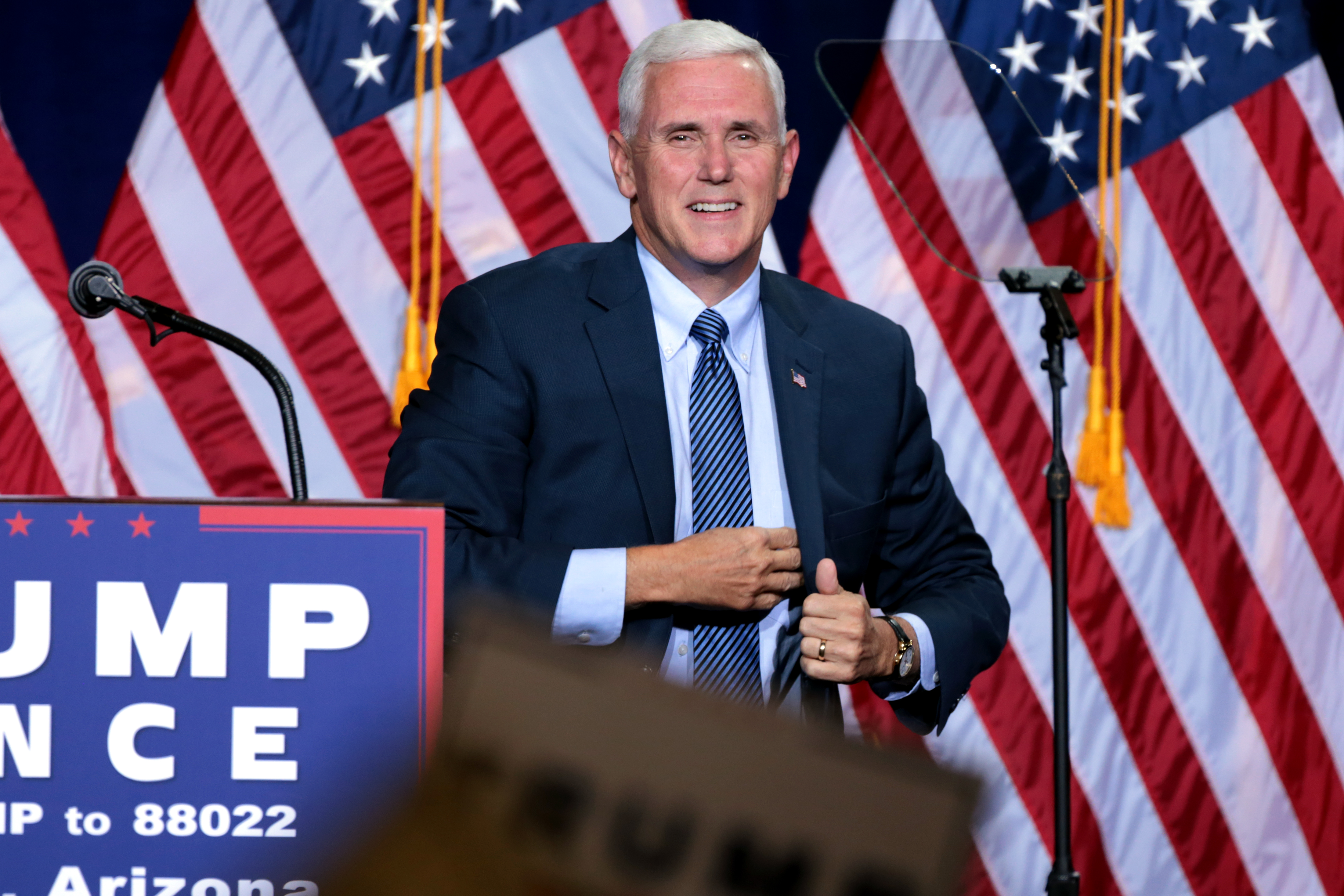 Governor Mike Pence of Indiana speaking to supporters at an immigration policy speech hosted by Donald Trump at the Phoenix Convention Center in Phoenix, Arizona.